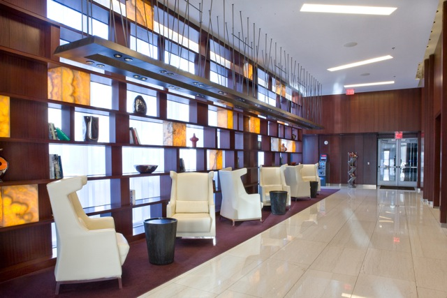 Photo of the lobby at Panorama Towers, an award-winning luxury high-rise condominium complex in Las Vegas, Nevada (Photo: Panorama Towers HOA)